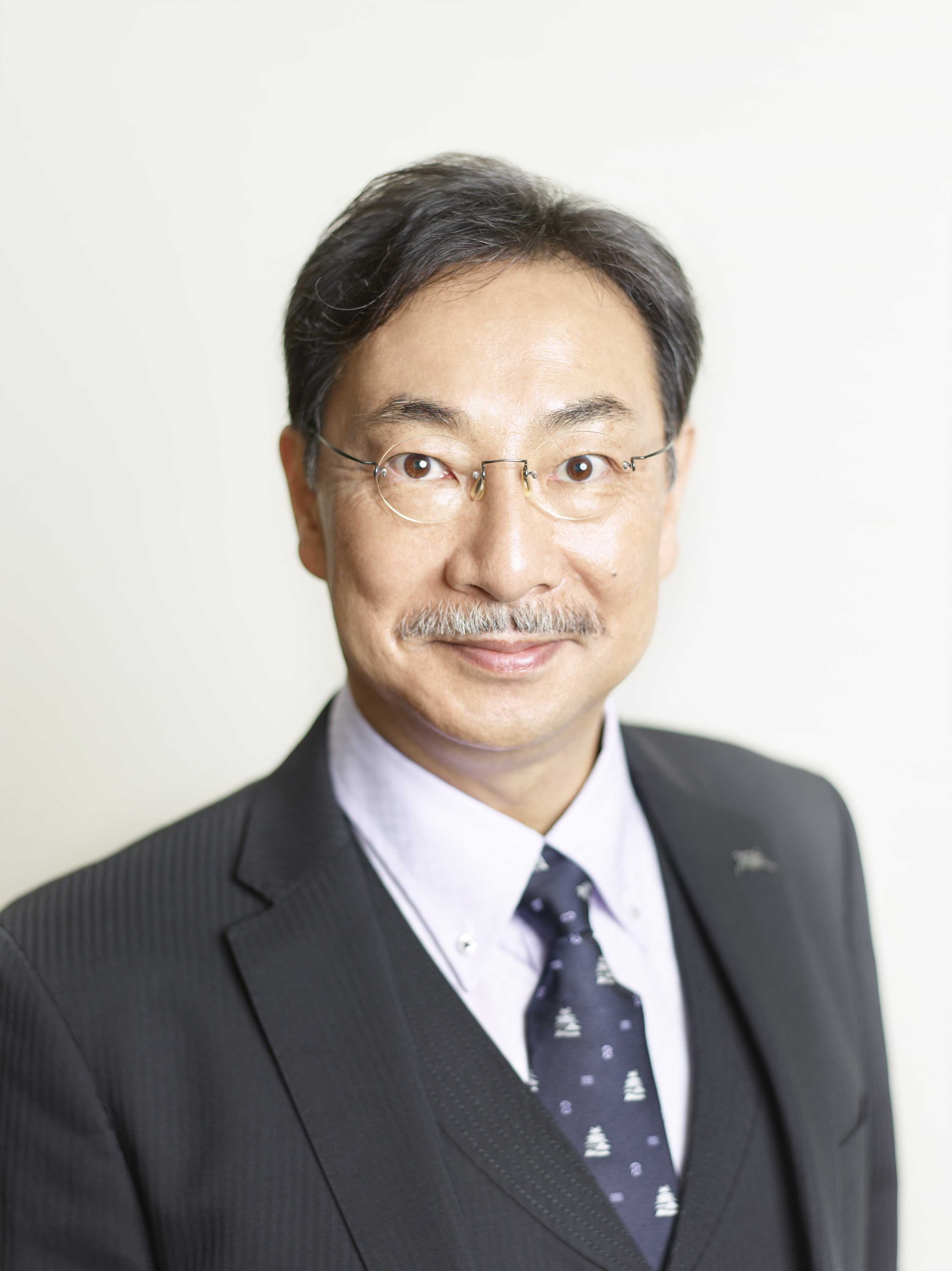 Prof. Dr. SENDA Yoshihiro ( Photographed by Mr. HATANAKA Kazuhisa )